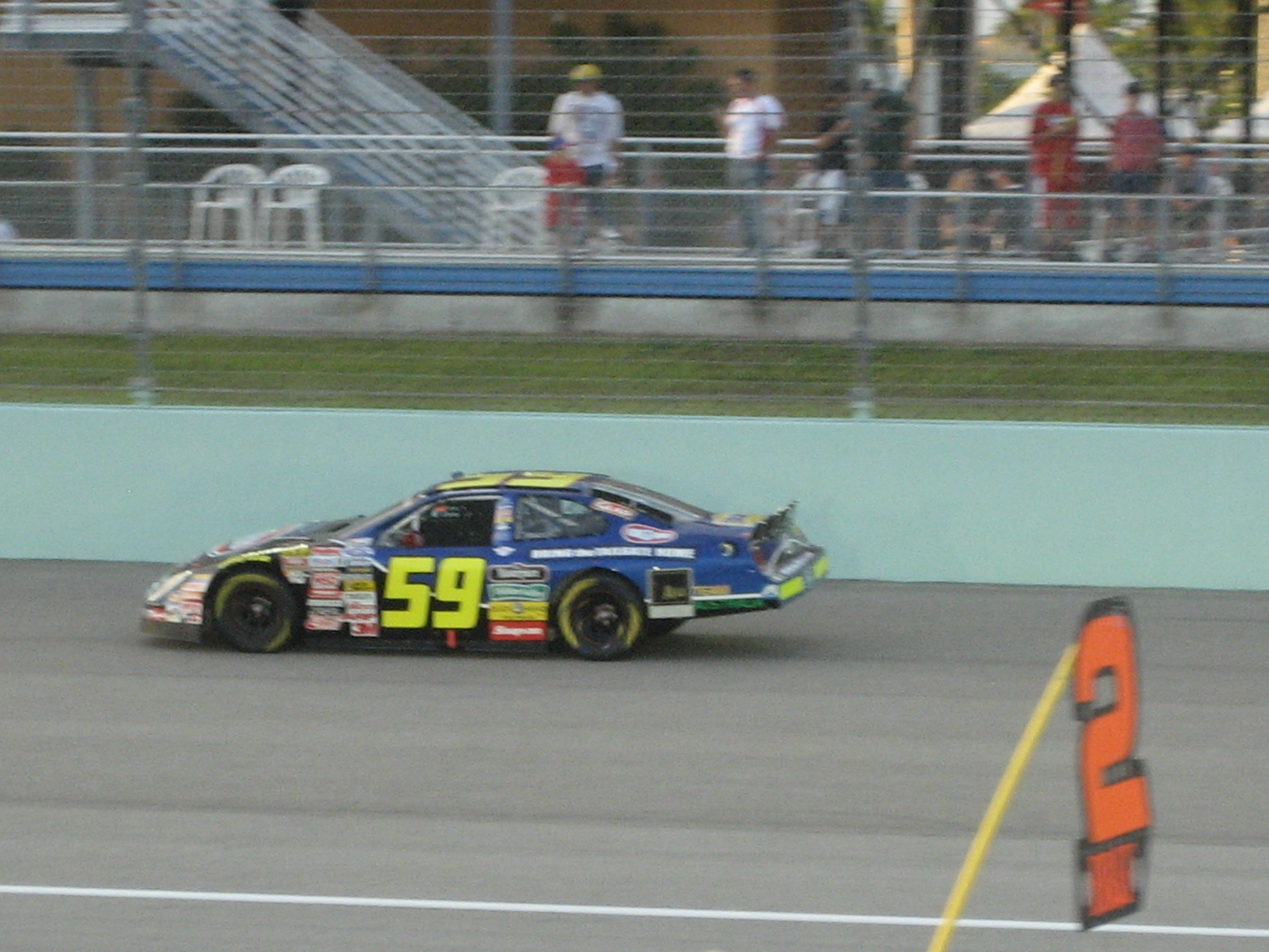 Marcos Ambrose during the 2007 Ford 300 at the Homestead-Miami Speedway.